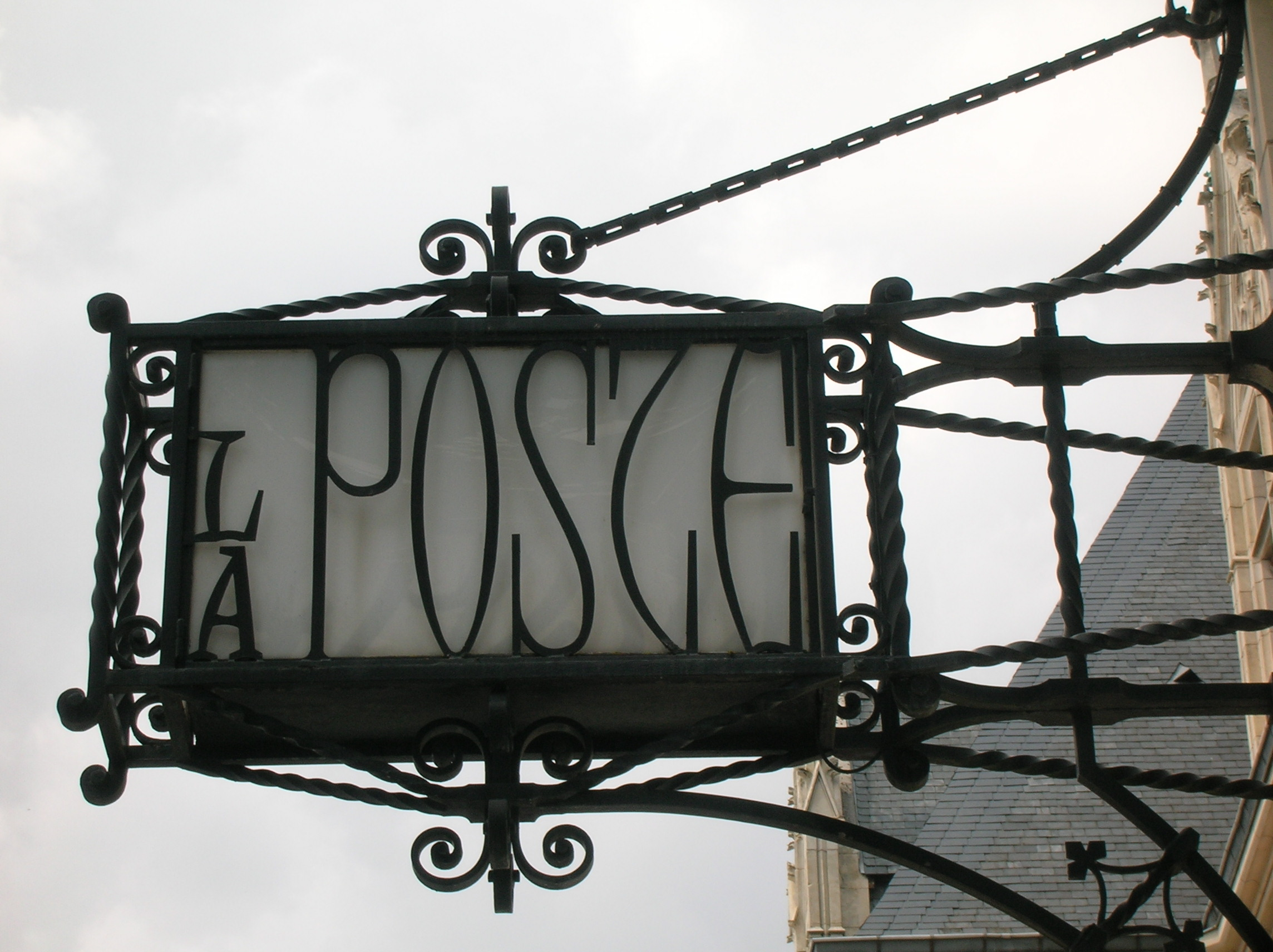 French post office sign in Bourges.